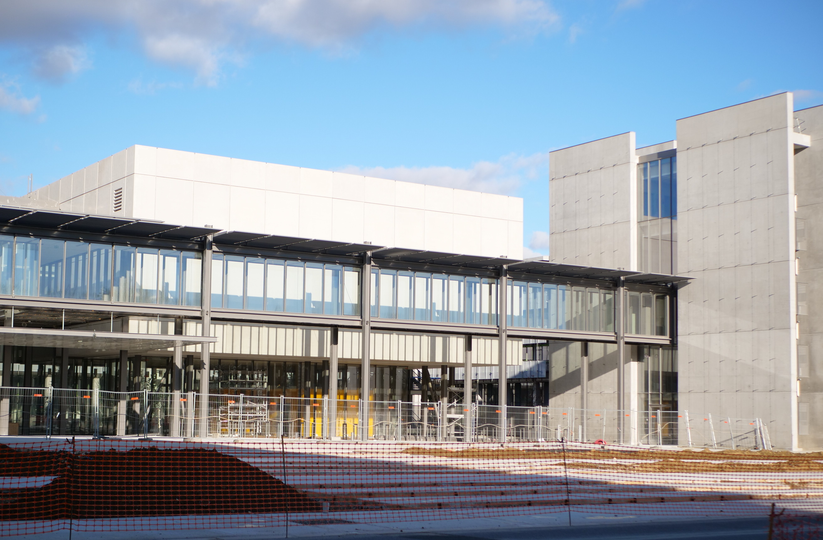 View of the ENS school and the amphitheater of the Paris-Saclay university, in December 2019.